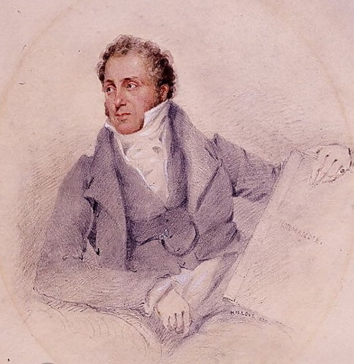 Selfportrait holding the book Normandie